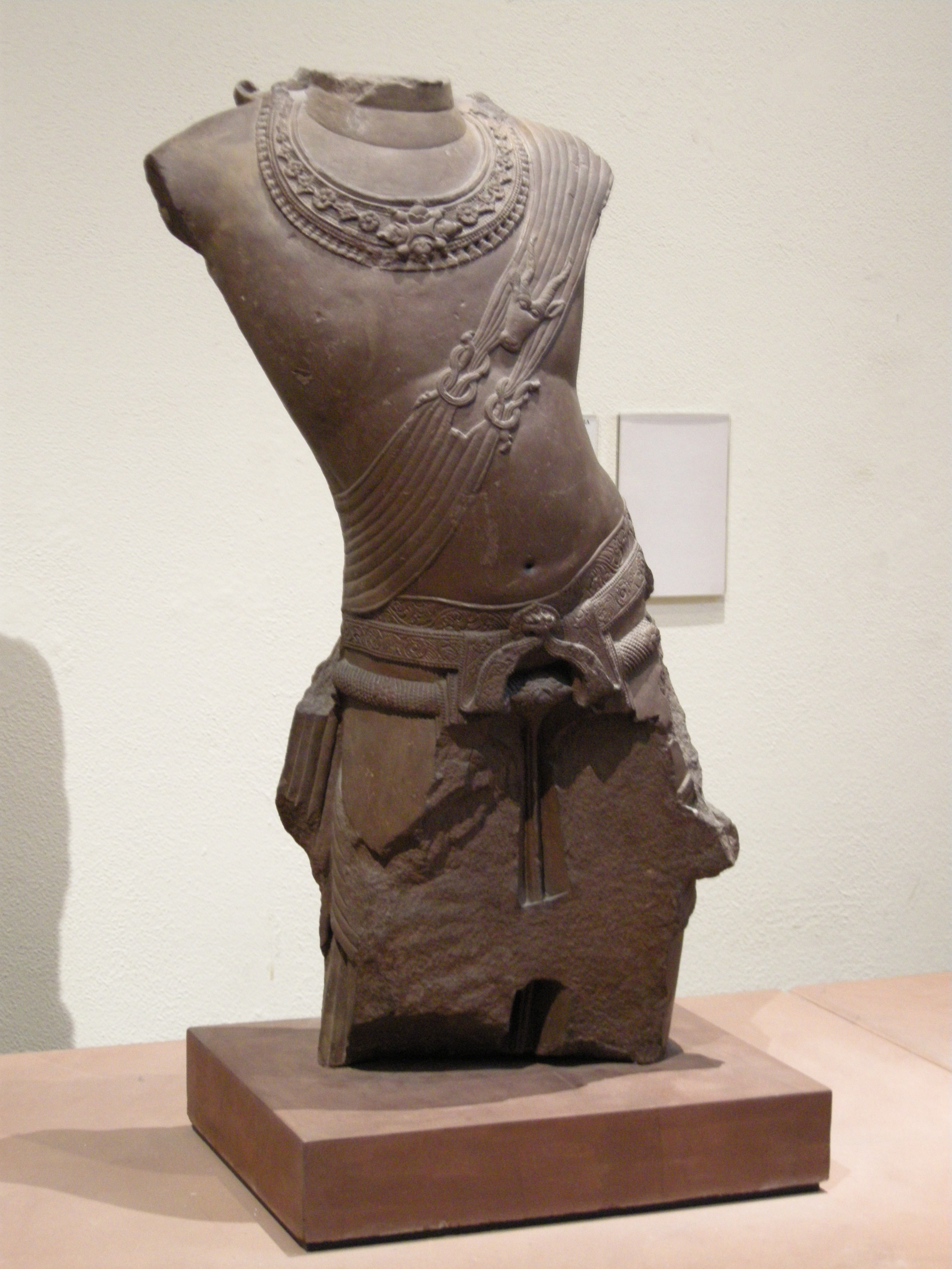 The Bodhisattva Avalokitesvara Sandstone Sanchi, Madhya Pradesh, Central India c.900 AD The 'Sanchi torso' was discovered in 1883 during excavation of portions of the western gateway of Stupa No 1 at Sanchi. Its precise identification remained ambiguous until 1971 when the existence of two fragments of a companion figure were identified in a storeroom at the site. Traces of the flower symbol of the Bodhisattva Maitreya identified the newly discovered figure and removed any doubts that the V&A torso represents the other premier Buddhist saviour-figure, the Bodhisattva Avalokitesvara. Museum no IM.184-1910 Wikipedia Loves Art at the Victoria and Albert Museum This photo of item # [1] at the Victoria and Albert Museum was contributed under the team name "VeronikaB" as part of the Wikipedia Loves Art project in February 2009. Victoria and Albert Museum The original photograph on Flickr was taken by VeronikaB—please add a comment to the original Flickr page whenever a use has been made on Wikipedia or another project. Project galleries on Flickr: this institution, this team